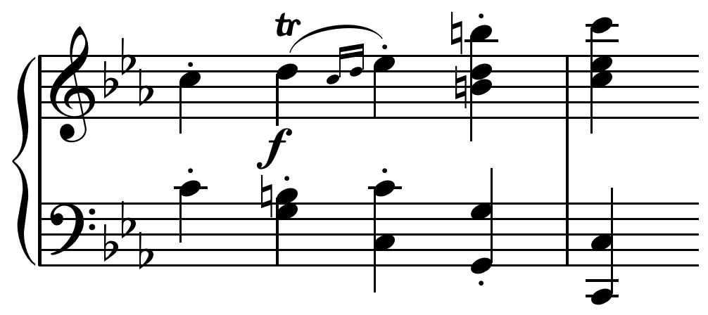 Consecutive perfect authentic cadences in Beethoven's Piano Sonata, Op. 13.